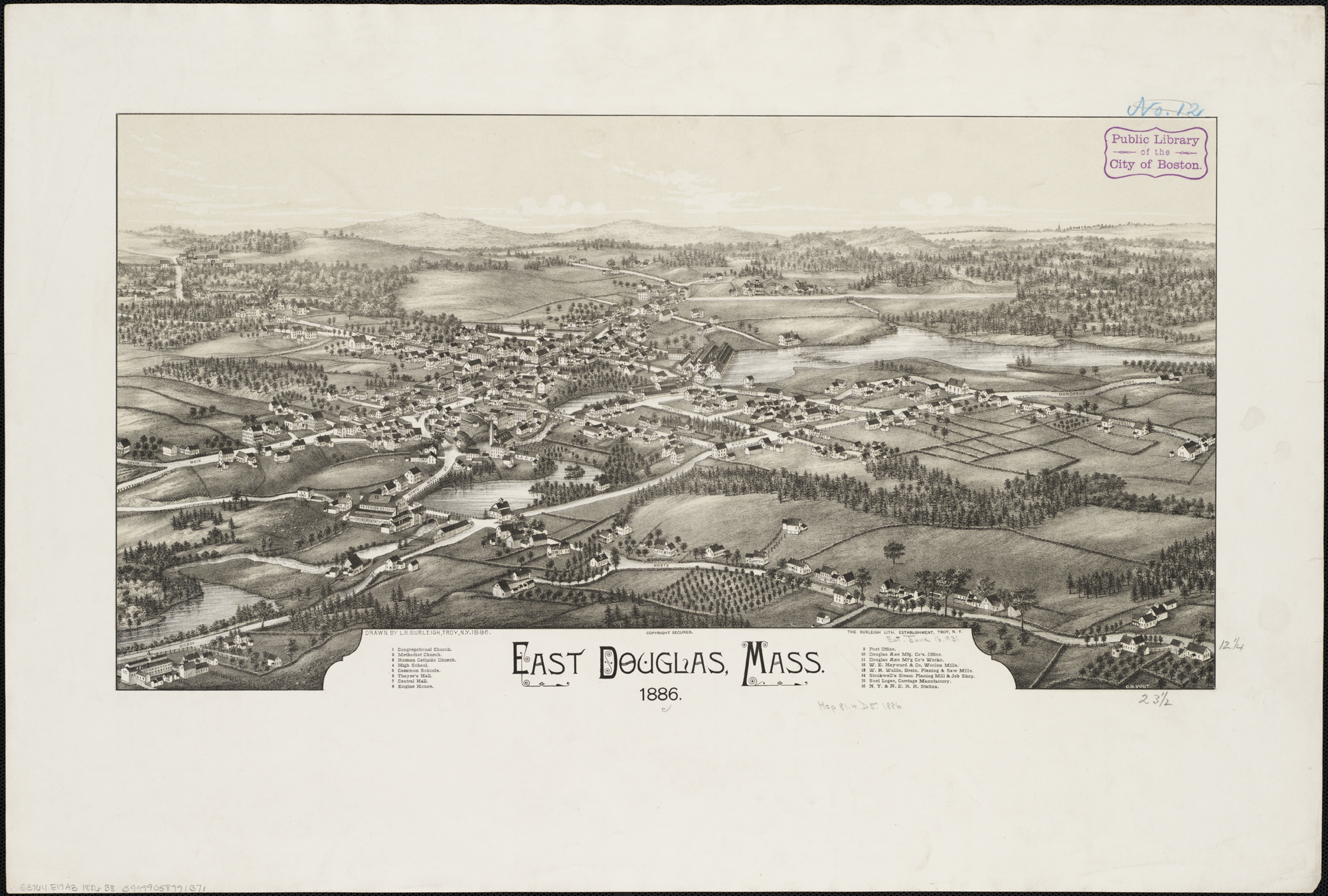 Zoom into this map at . Author: Burleigh, L. R. Publisher: [L.R. Burleigh] Date: 1886. Location: East Douglas (Mass.) Scale: Not drawn to scale. Call Number: G3764.E17A3 1886.B8